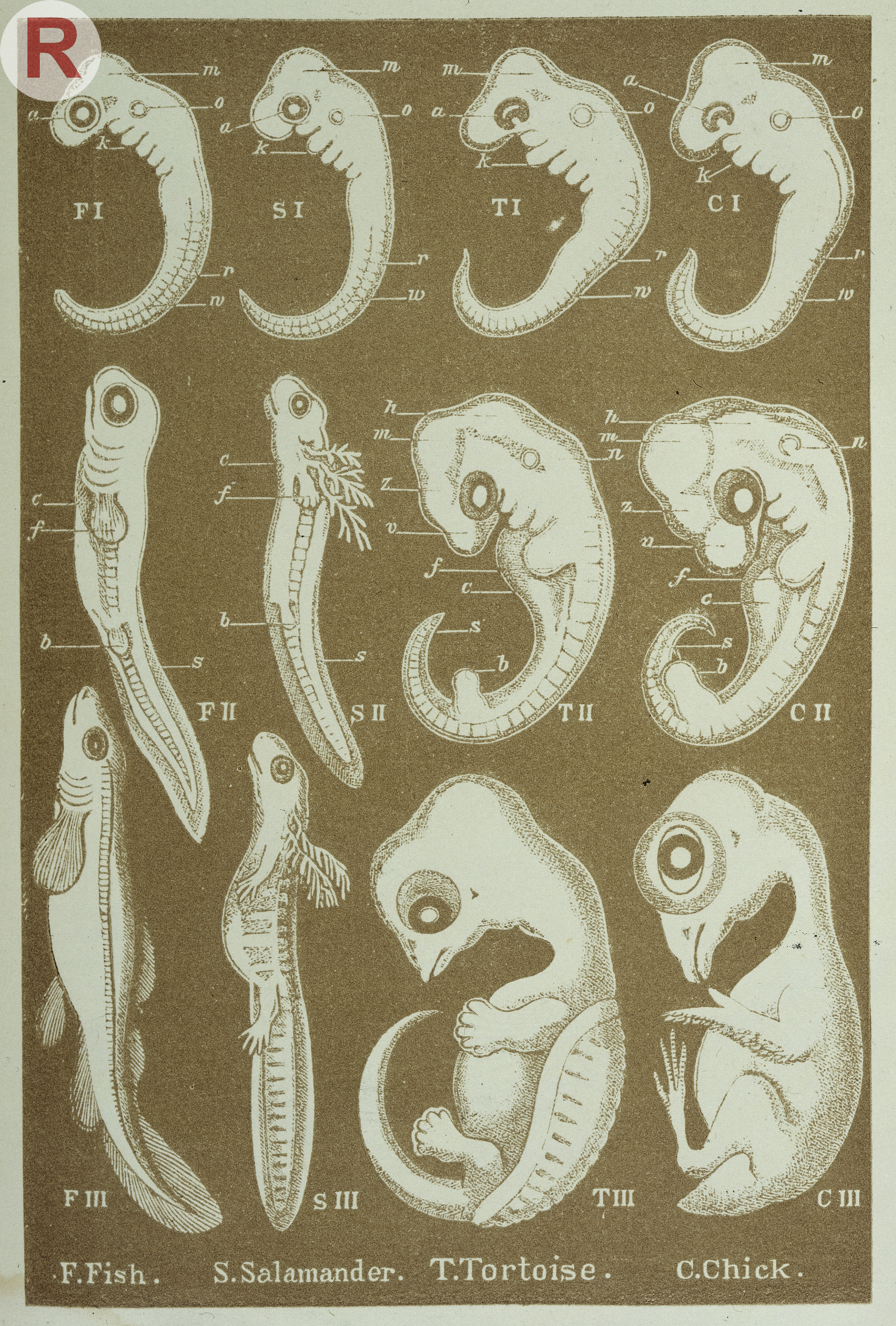 Haeckel's Evolution of Man. This plate represents the embryos of two of the lower, and two of the higher Vertebrates in three different stages: of a fish (F); of an amphibian (salamandar,S); of a reptile (tortoise,T); and of a bird (chick,A). General Collections Keywords: Embryo; Evolution; Embryology; Animals; Embryonic Structures